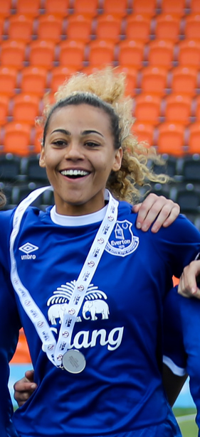 London Bees v Everton LFC, 20 May 2017